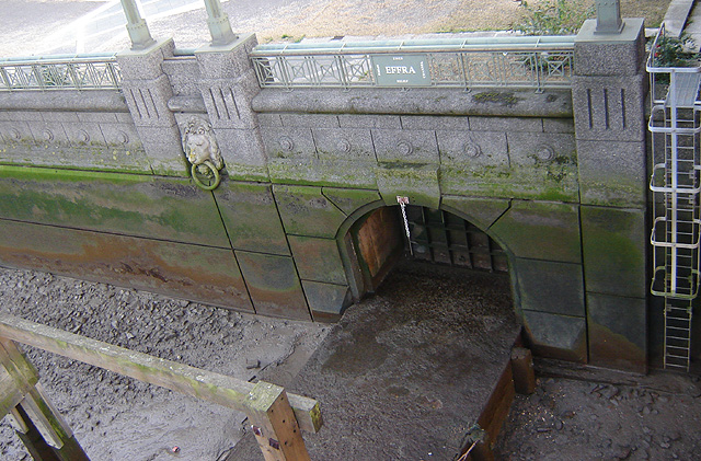 Effra former stream, since mid-19th century combined fully underground (culverted) sewer has a storm outlet pending construction of the Thames Tideway Tunnel, Vauxhall, London. 29 October 2005. Photographer: Fin Fahey